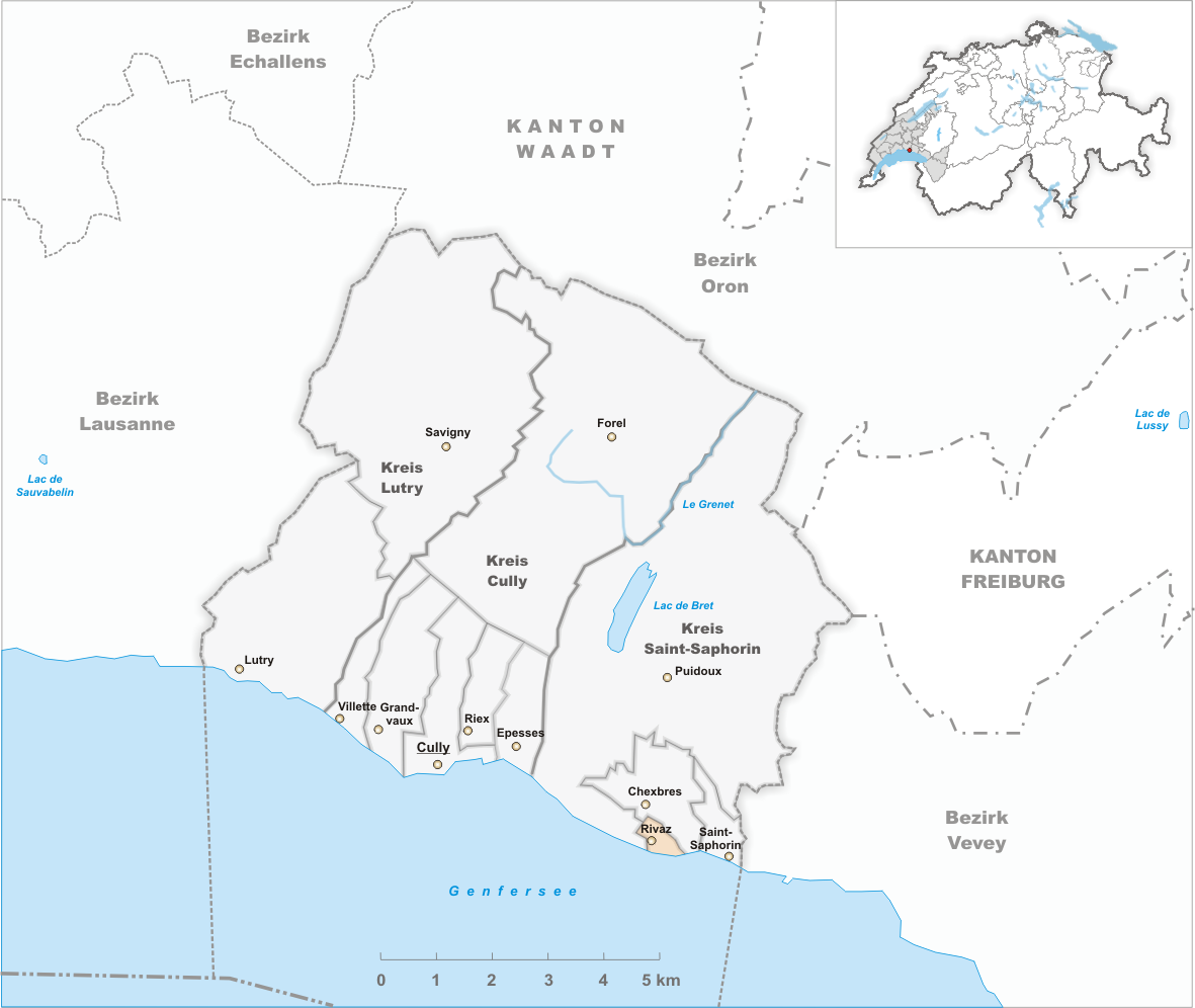 Municipality Rivaz